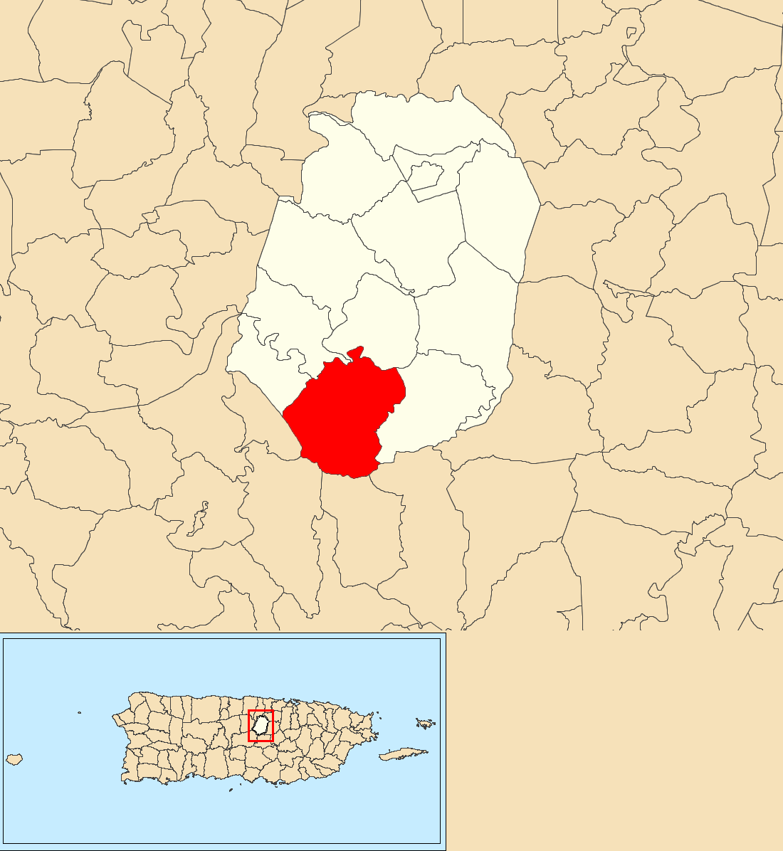 Palmarito, Corozal, Puerto Rico locator map